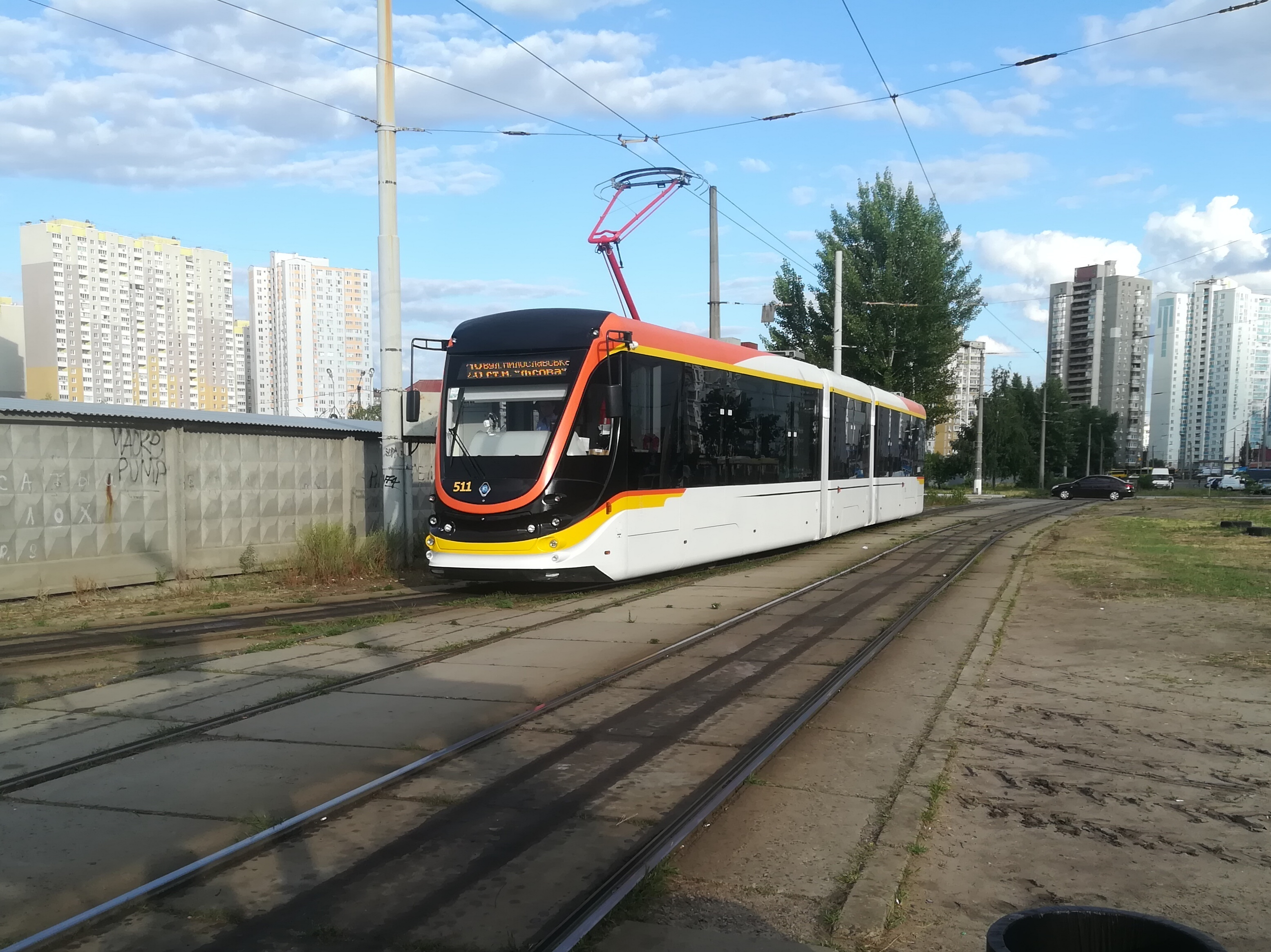 Tram K1M6 No. 511 on Myloslavska street in Kyiv (route 28)